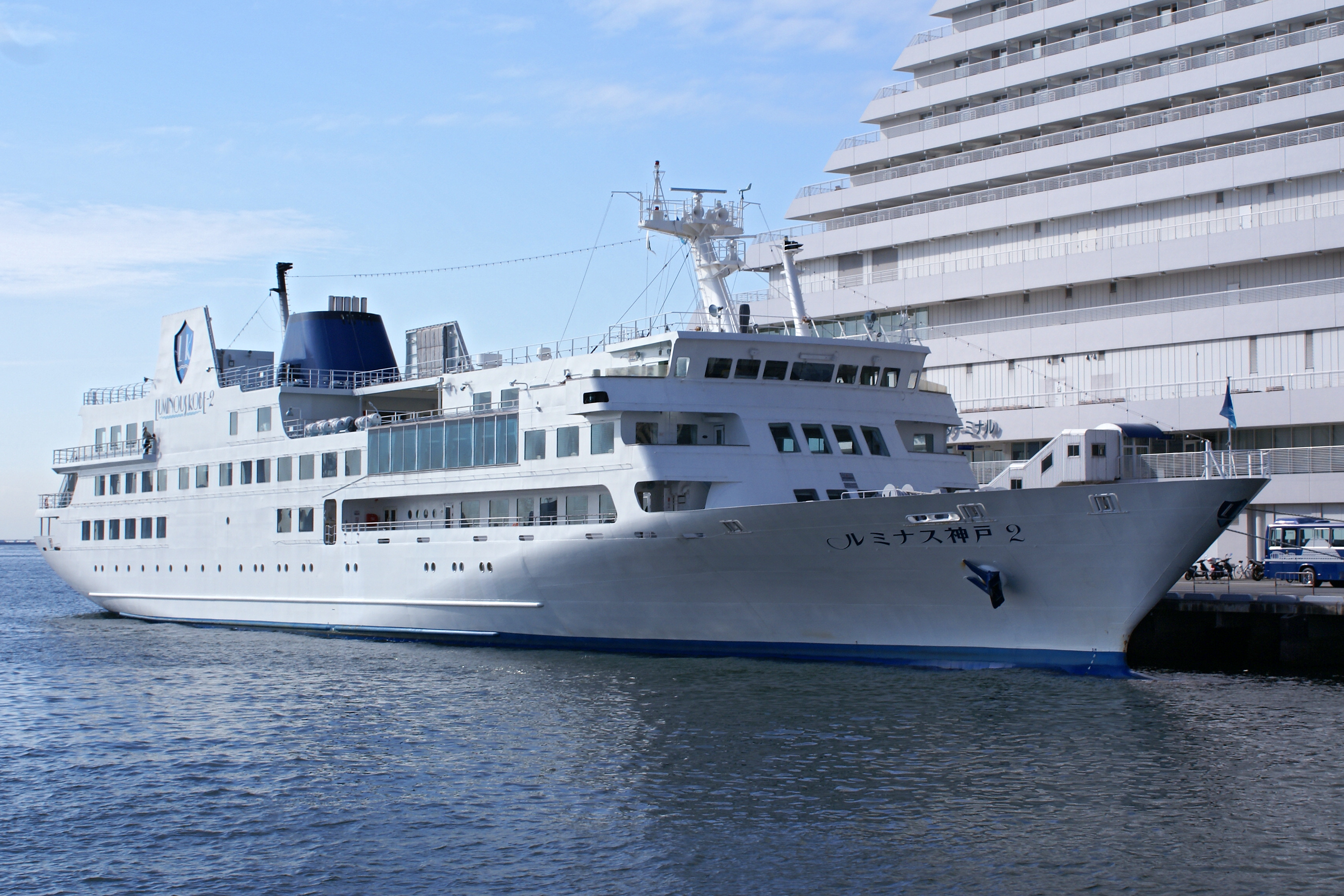 "Luminous Kobe2" at Port of Kobe in Kobe, Hyogo prefecture, Japan